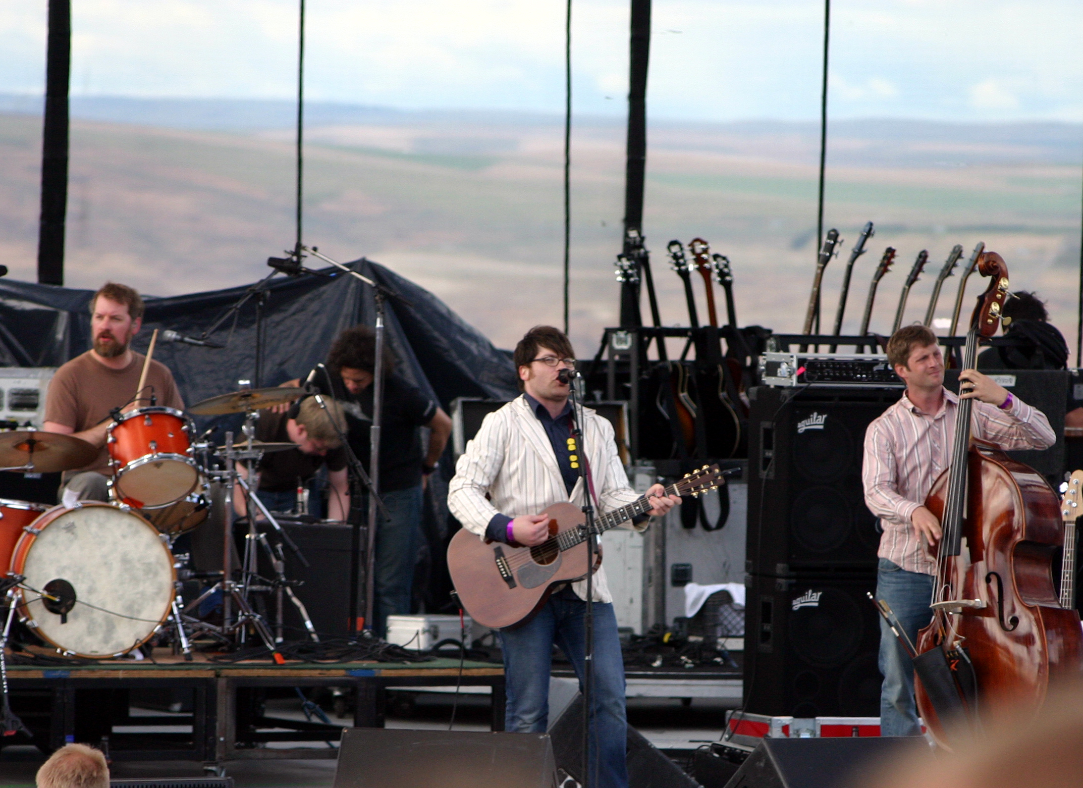 The Decemberists, playing live at the 2006 Sasquatch! Music Festival.